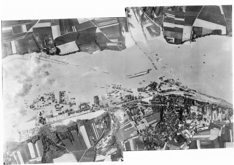 Operation Chastise (the Dambusters' Raid) 16 - 17 May 1943 The Targets: A (vertical) reconnaissance photo of the Ruhr Valley at Froendenberg-Boesperde, some 13 miles south from the Moehne Dam, showing massive flooding.